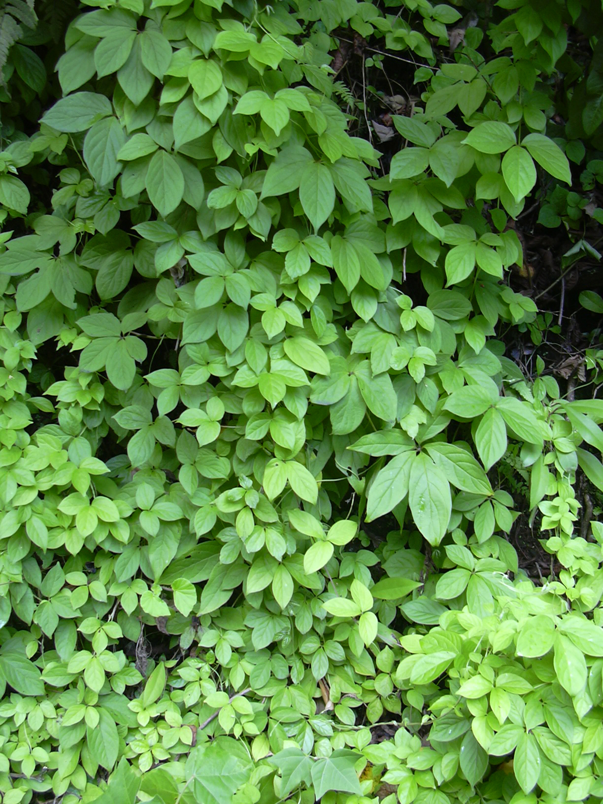 Dioscorea pentaphylla (habit). Location: Maui, Hana Hwy